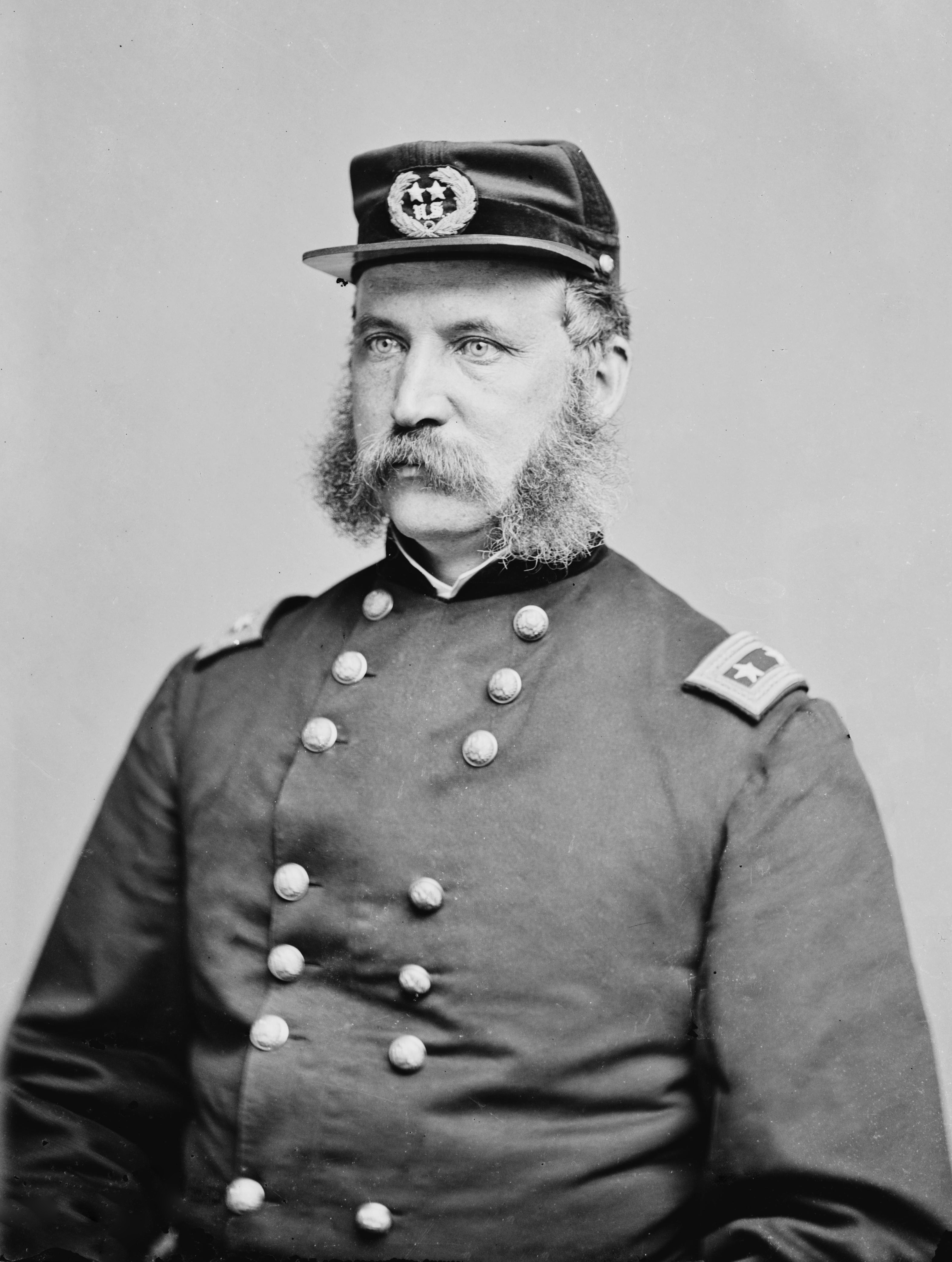 John G. Foster. Library of Congress description: "Gen. J. G. Foster"